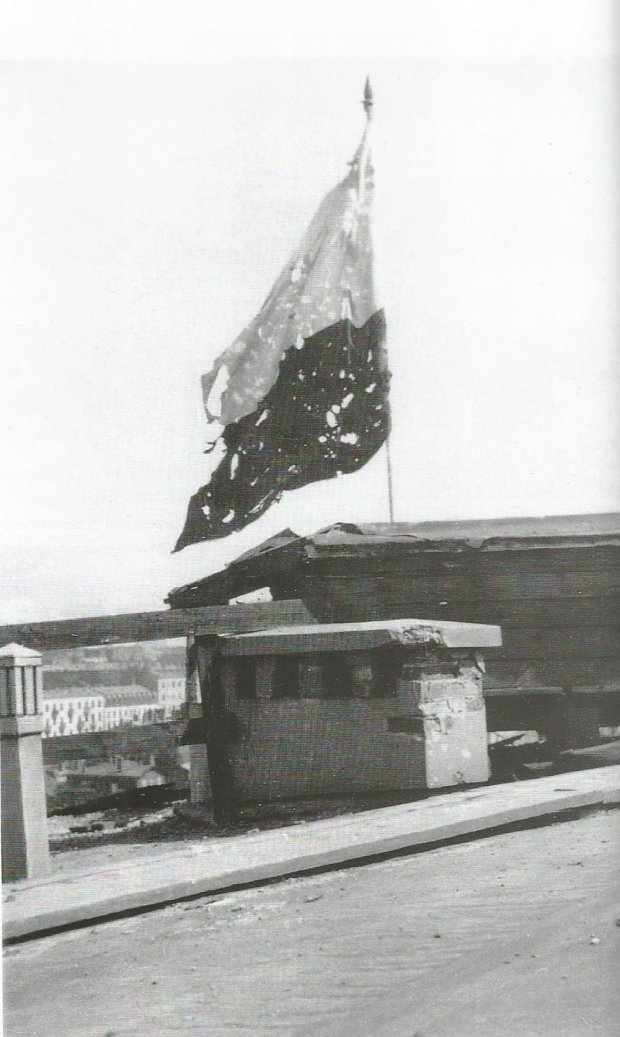 Warsaw Uprising: Polish flag on top of the Post Office Train Station in the last days of the Warsaw Uprising.